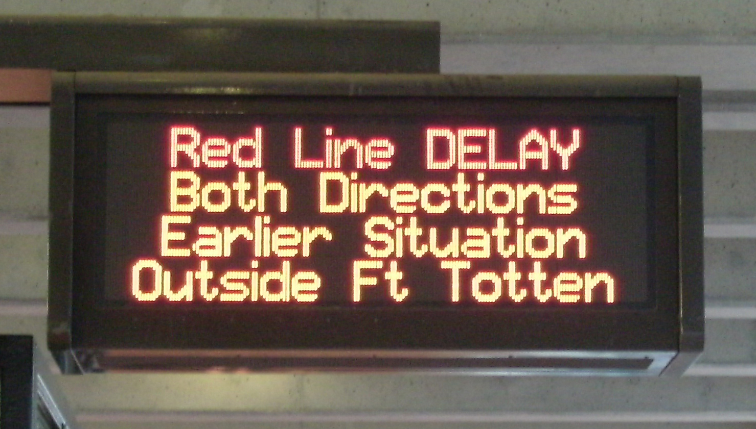 Delays continued on the Red Line for over a day after the accident, the "earlier situation" referred to on the PIDS sign.